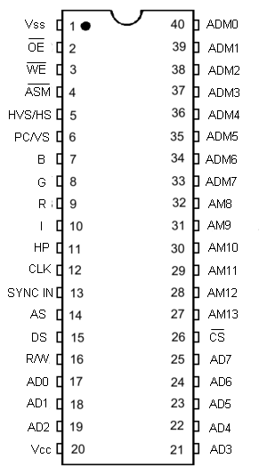 SGS-Thomson EF9345P semi-graphic display processor pinout.